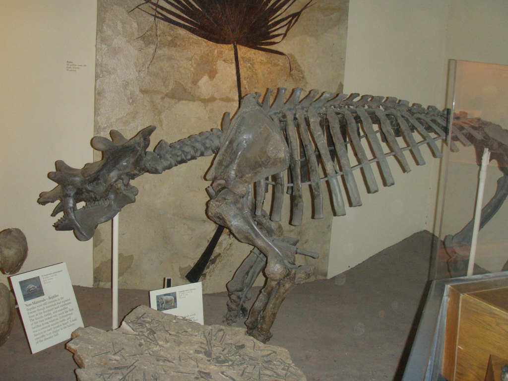 Skeleton of Uintatherium